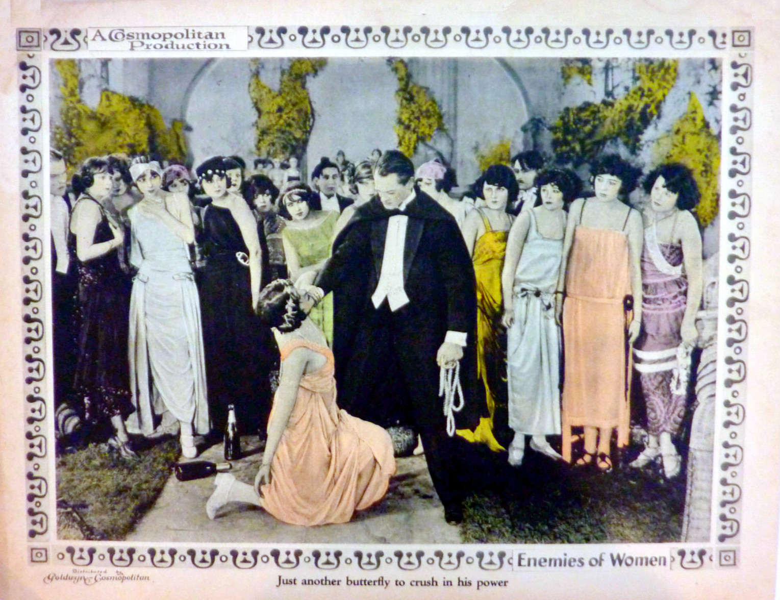 Lobby card for the American romantic drama film Enemies of Women (1923).